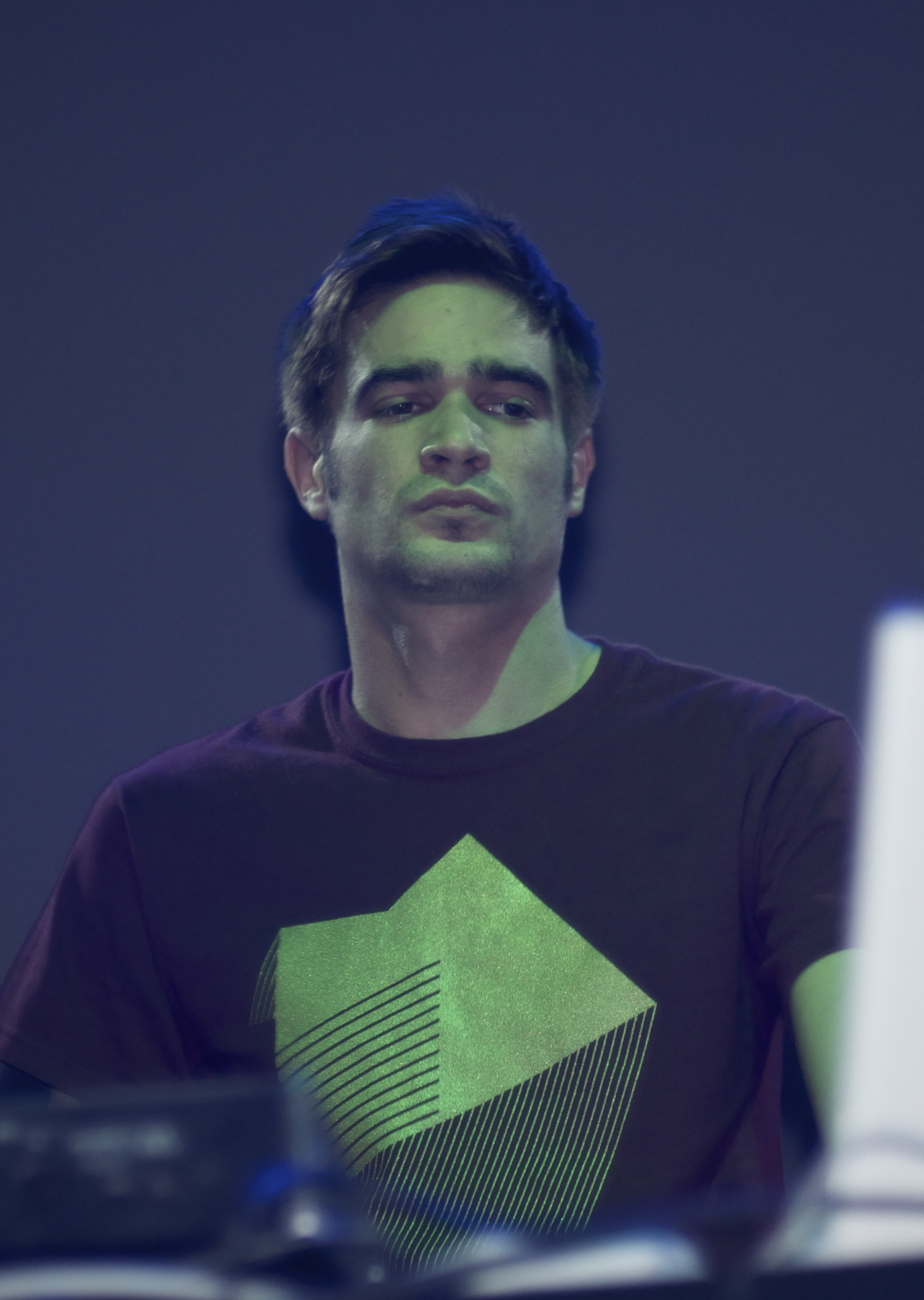 Jon Hopkins at Skif Festival, Saint Petersburg, 16th may 2010